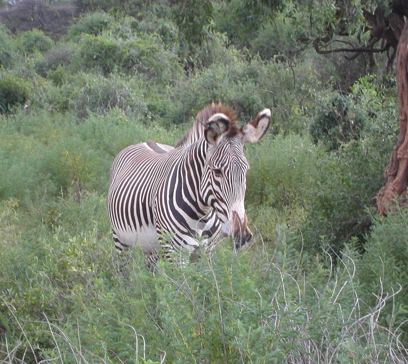 Equus grevyi in Samburu N.P. (Kenya)